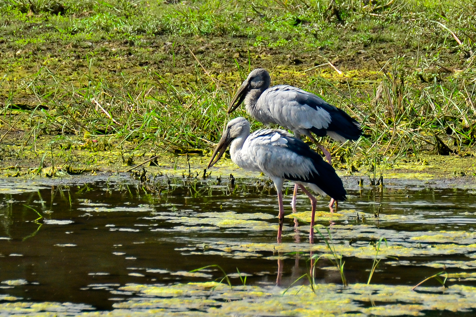 Asian Openbill Storks (Anastomus oscitans) at Rajavallipuram Pond, Tirunelveli District, Tamil Nadu, India.